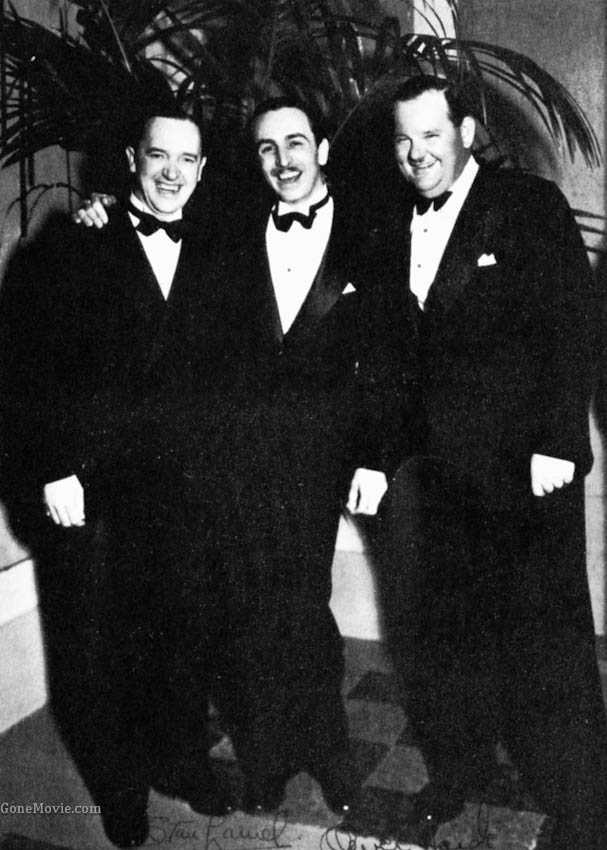 Stan Laurel, Walt Disney and Oliver Hardy.